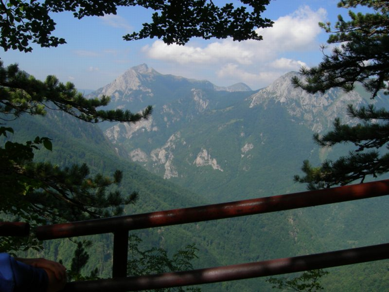 Primeval forest Perućica in National park Sutjeska.